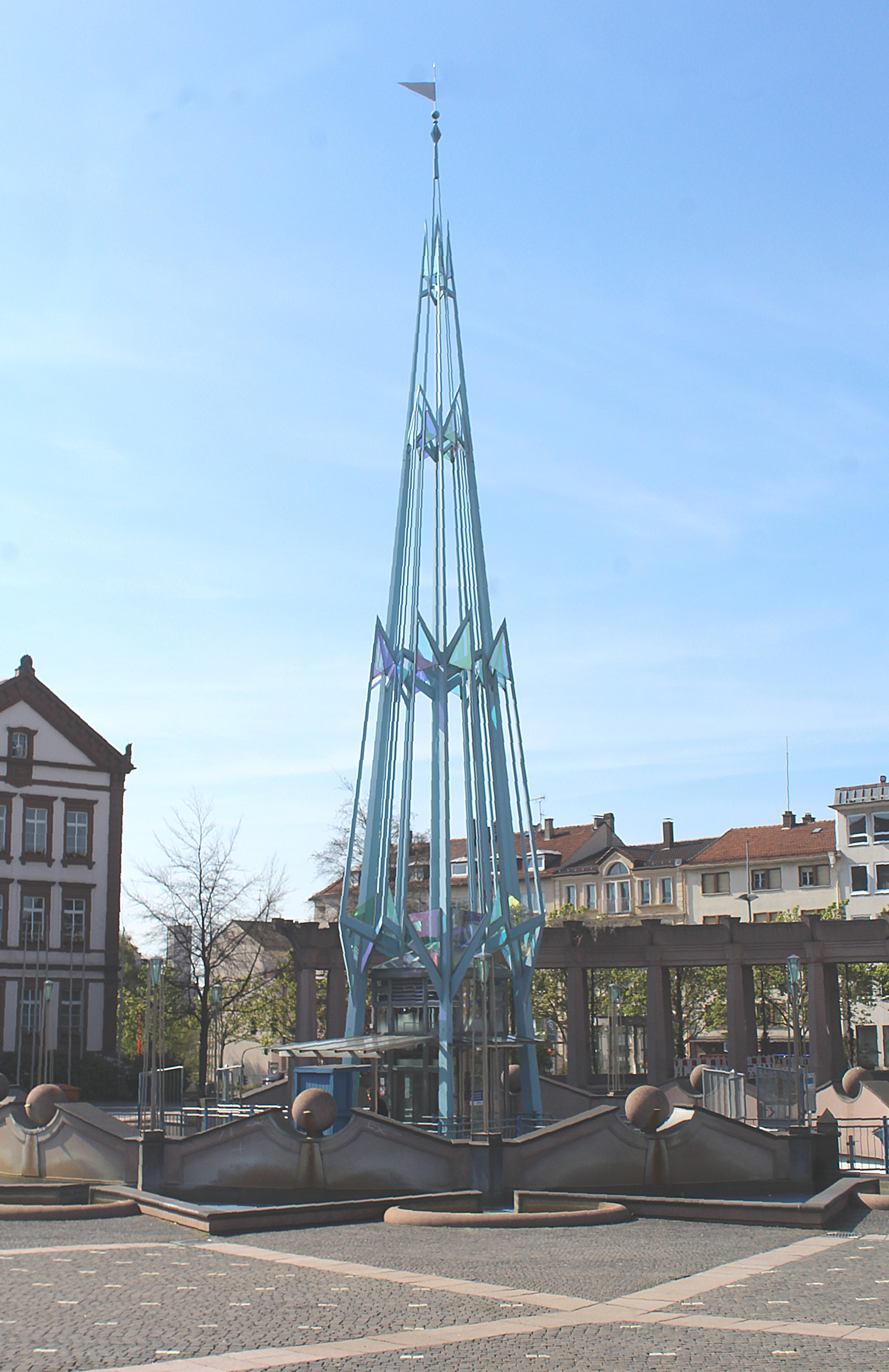 Pirmasens, on the Exerzierplatz